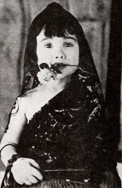 Still from the American comedy short film Carmen, Jr. (1923) with Diana Serra Cary aka Baby Peggy, on page 404 of the January 20, 1923 Exhibitor's Trade Review.